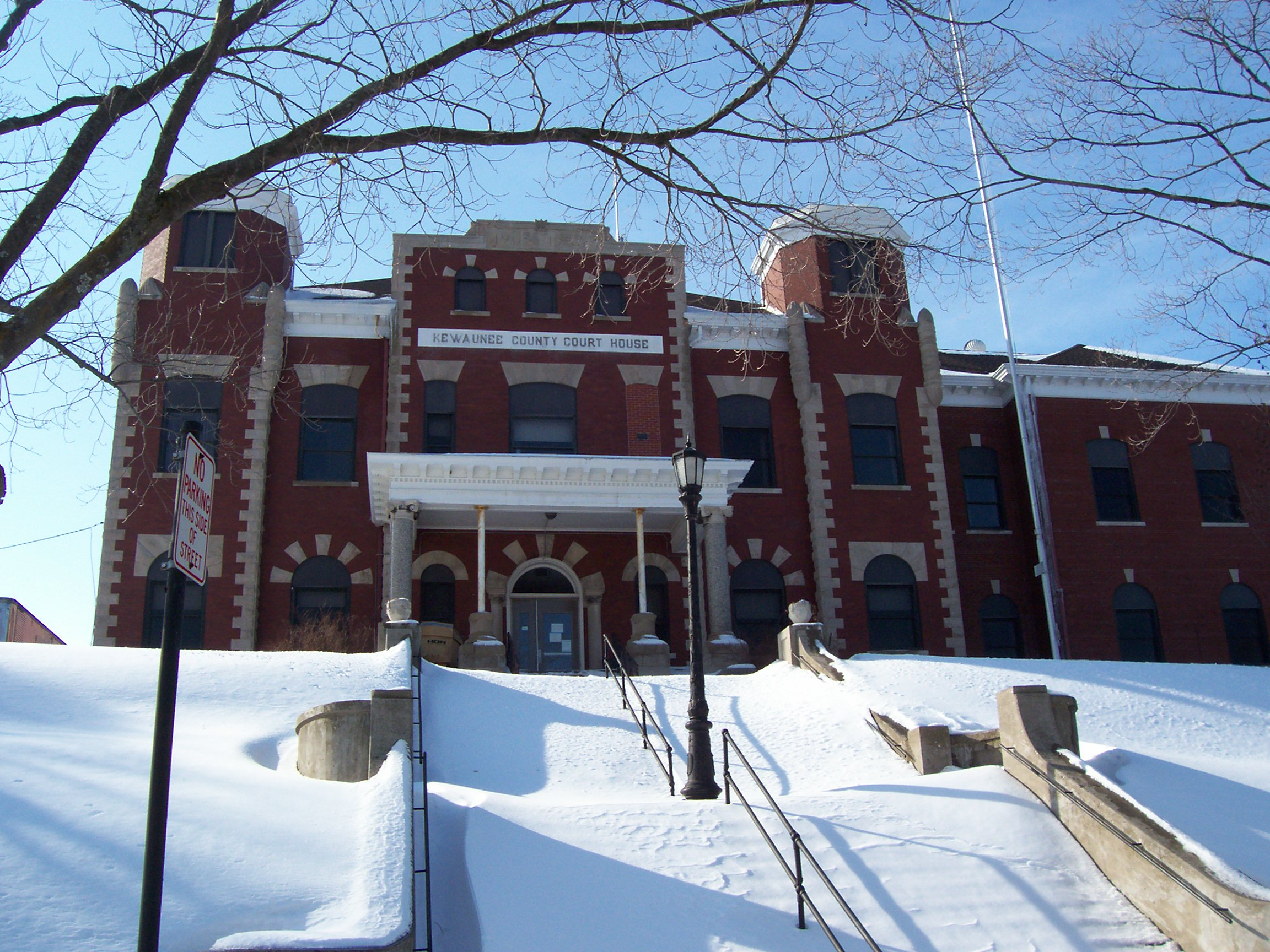 The Kewaunee County Courthouse in Kewaunee, Wisconsin in Kewaunee County, Wisconsin USA